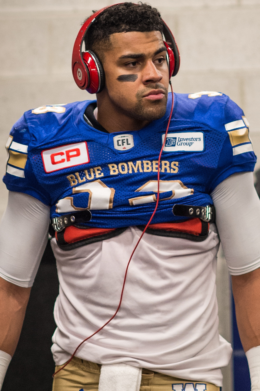 Andrew Harris (33) before the pre-season game at TD Place in Ottawa, ON on Monday June 13, 2016. (Photo: Johany Jutras)